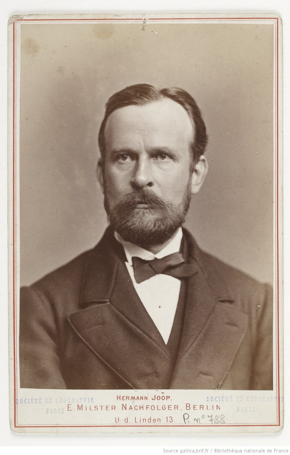 Ferdinand von Richthofen